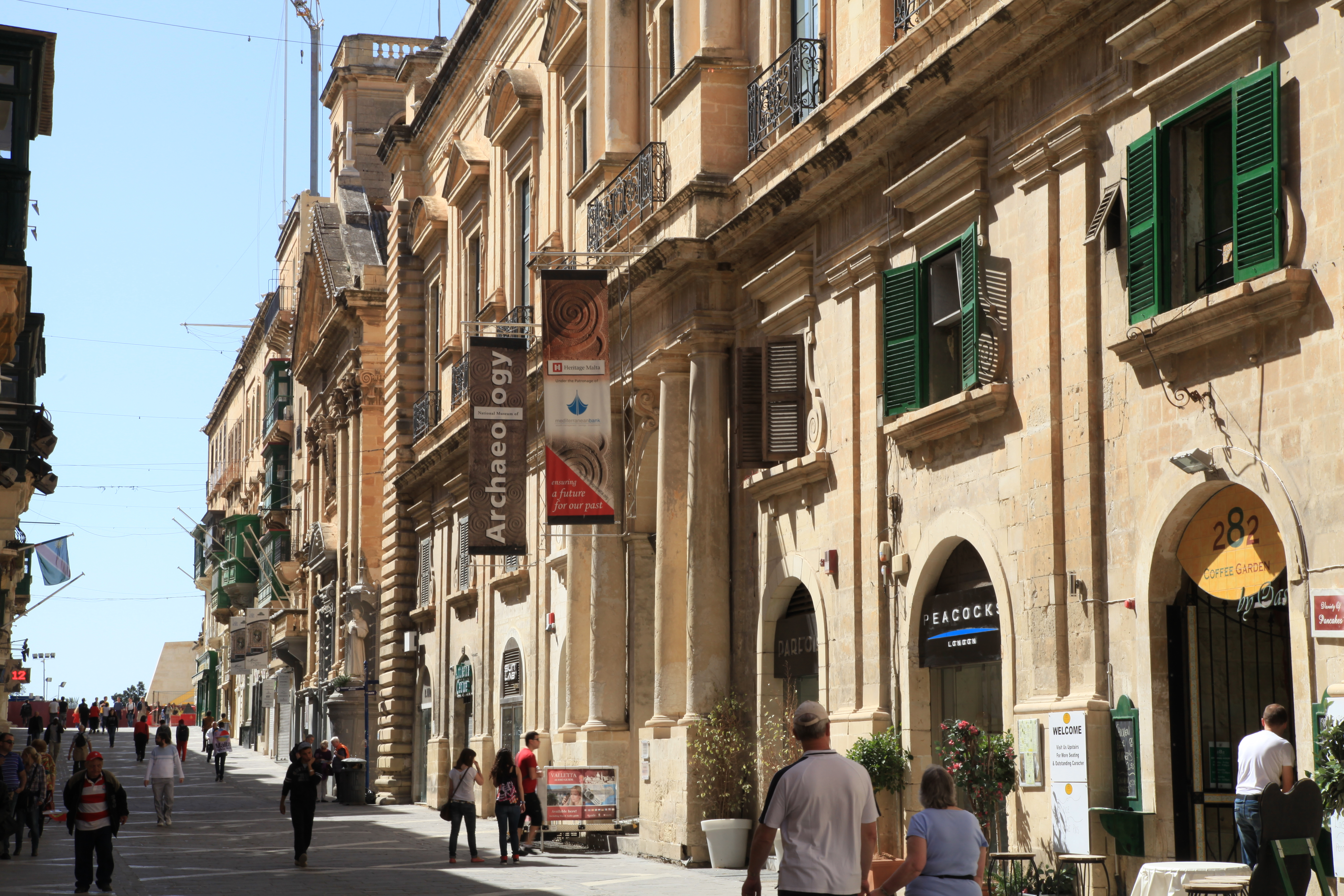 Auberge de Provence at Triq ir-Repubblika in Valletta, Malta